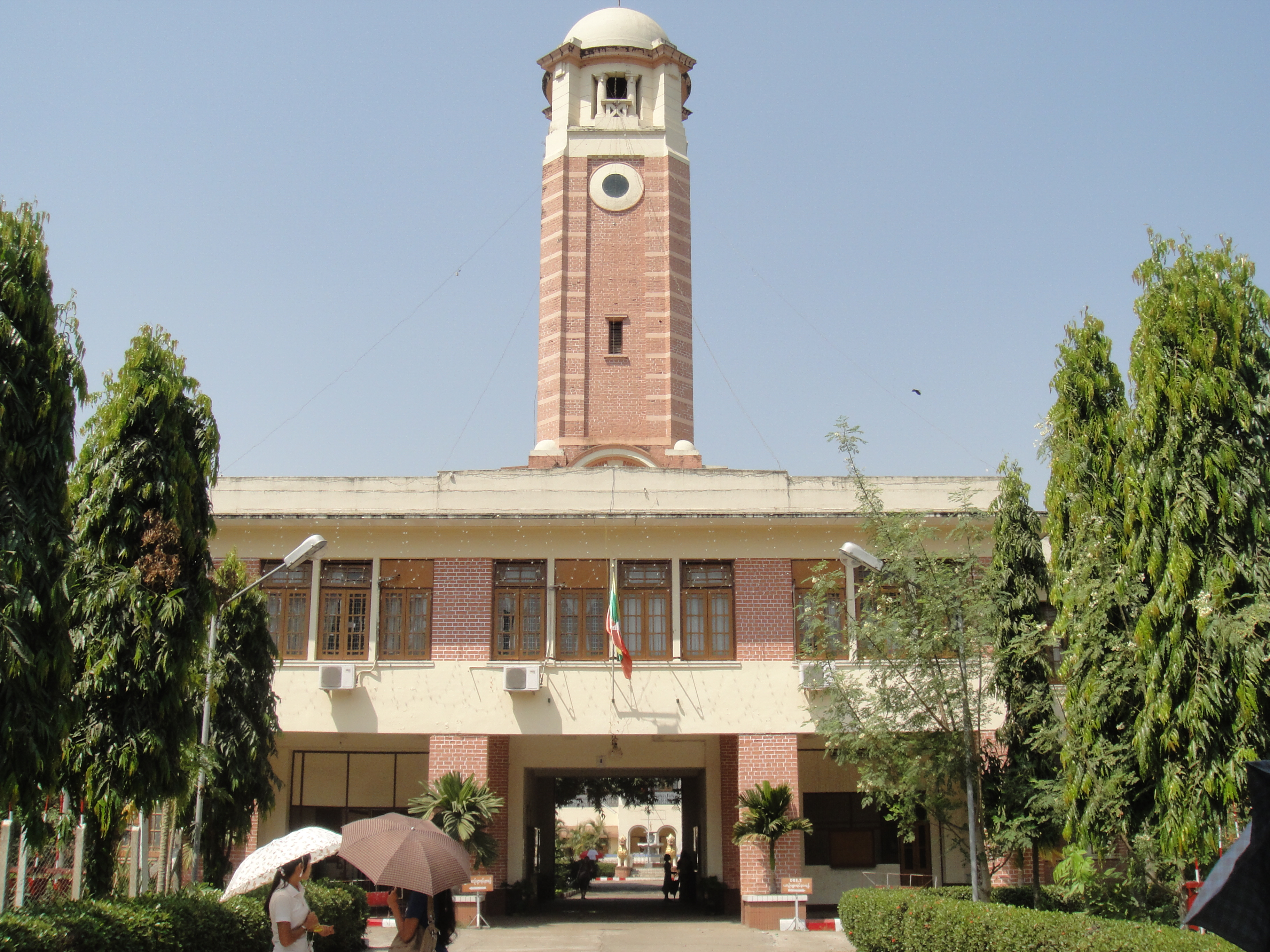 Department of Basic Education No. 3, Yangon.